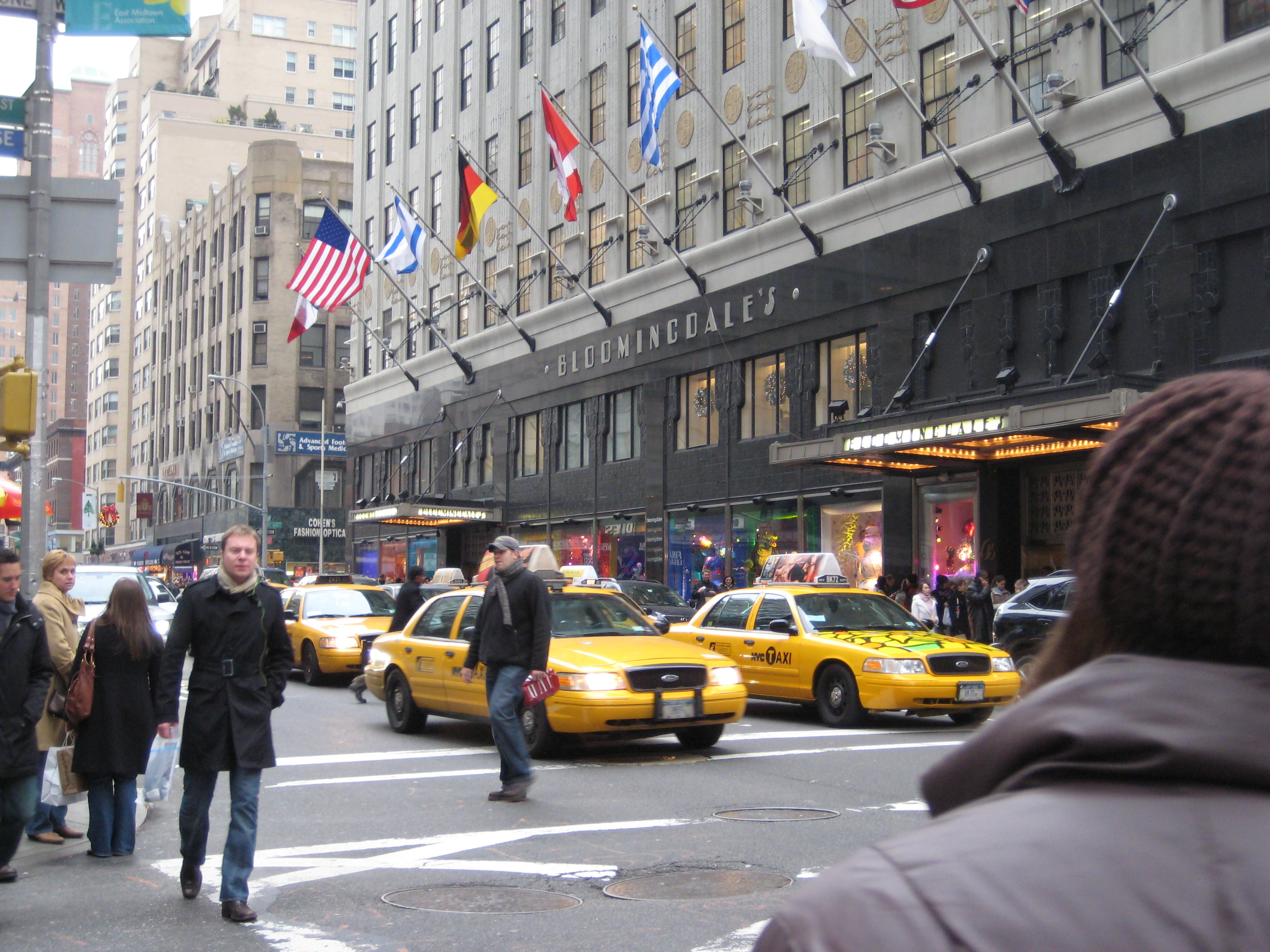 Bloomingdale's in New York City